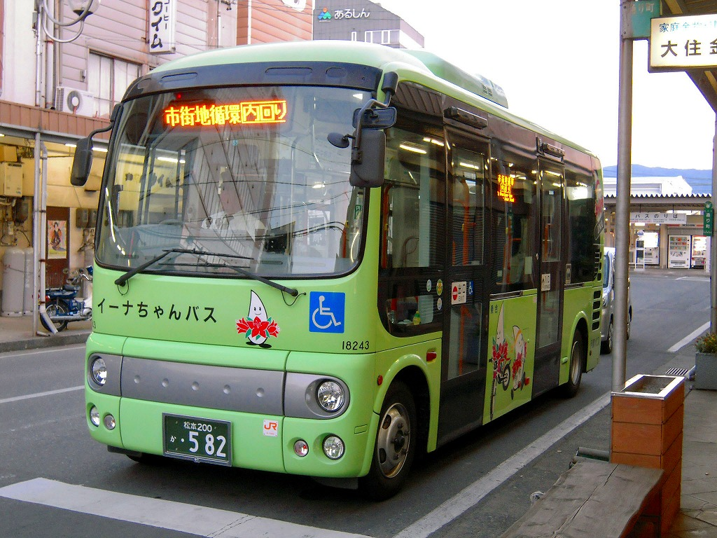 Ina bus HINO Poncho(ADG-HX6JLAE),Ina city loop bus "I-na chan bus".